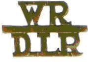 Cap badge worn by the soldiers of the battalion formed with the amalgamation of Witwatersrand Rifles and Regiment de la Rey during WW2.